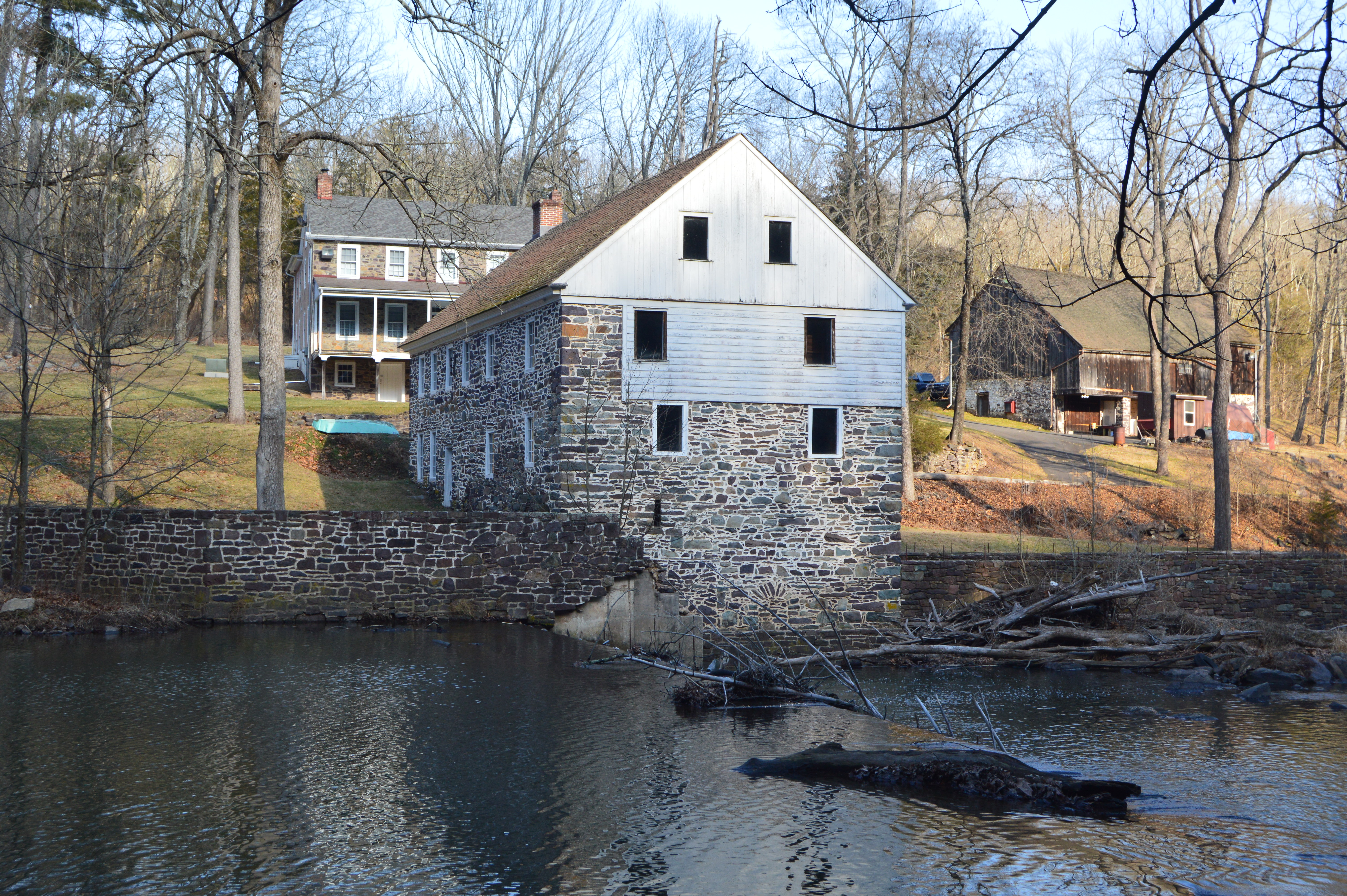 Sunrise Mill in January